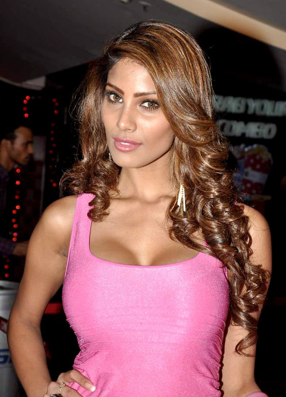 Nicole Faria at the First look launch of 'Yaariyan'